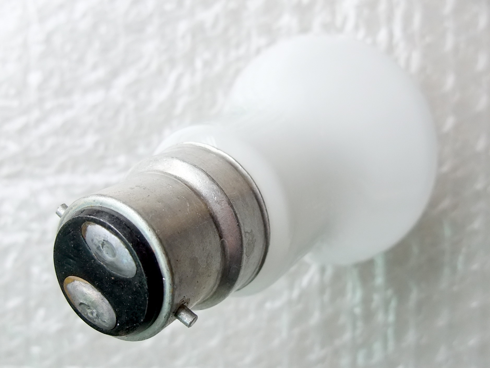 A light bulb with bayonet (B22) base